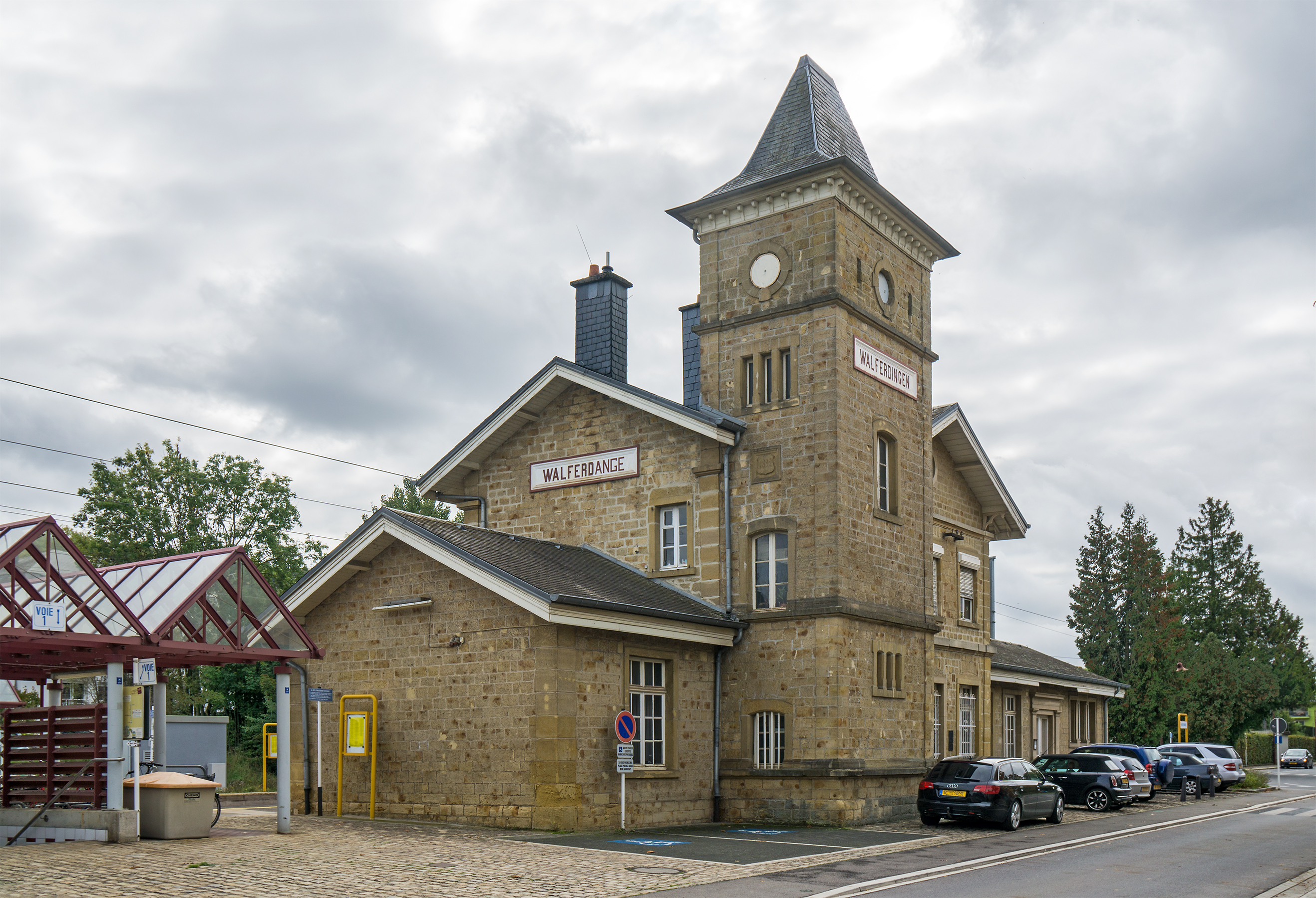 Train station of Walferdange